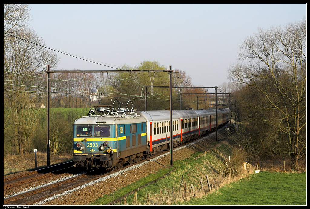 NMBS/SNCB HLE 2503 with a P train.